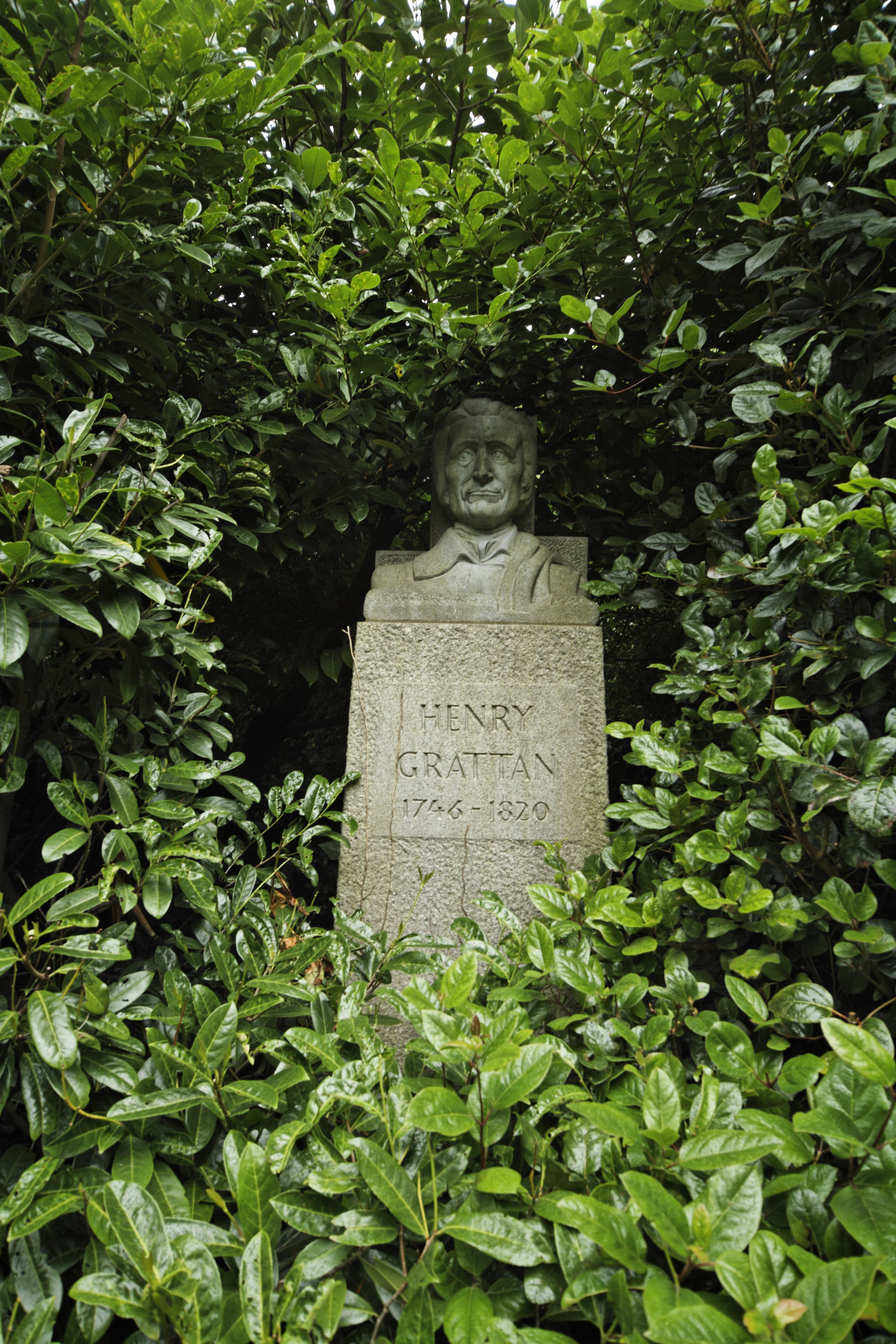 Sculpture, Merrion Square, Dublin. – Henry Grattan (July 3, 1746 - June 6, 1820) was a member of the Irish House of Commons and a campaigner for legislative freedom for the Irish Parliament in the late 18th century. He opposed the Act of Union 1800 that merged the Kingdoms of Ireland and Great Britain.